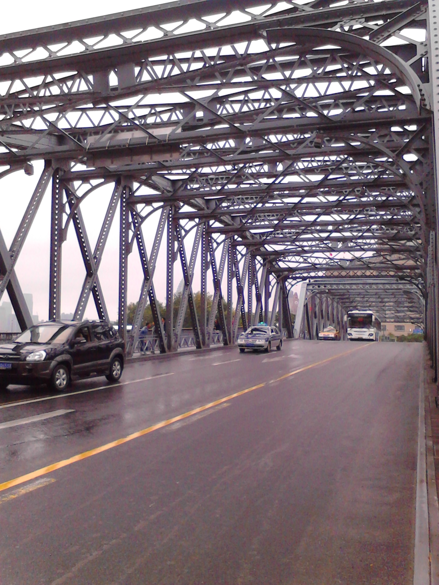 Waibadu Bridge, Shanghai